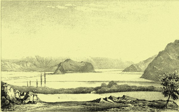 skardu is old and was the capital of maqpon emperors